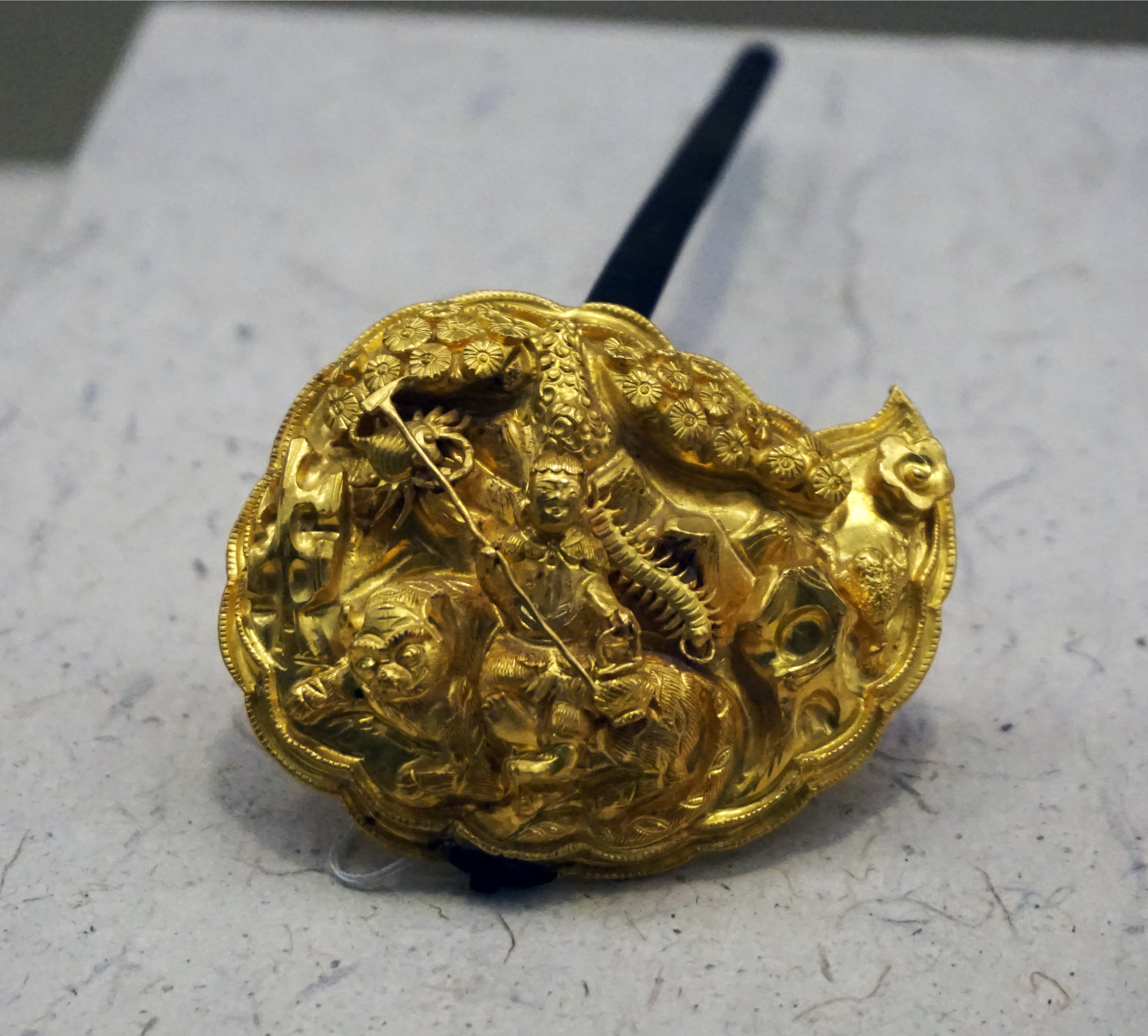 Gold funerary ornament with scorpion and centipede, It Zou Jiang Ming tomb, Qingyang, Jiangyin City Museum.